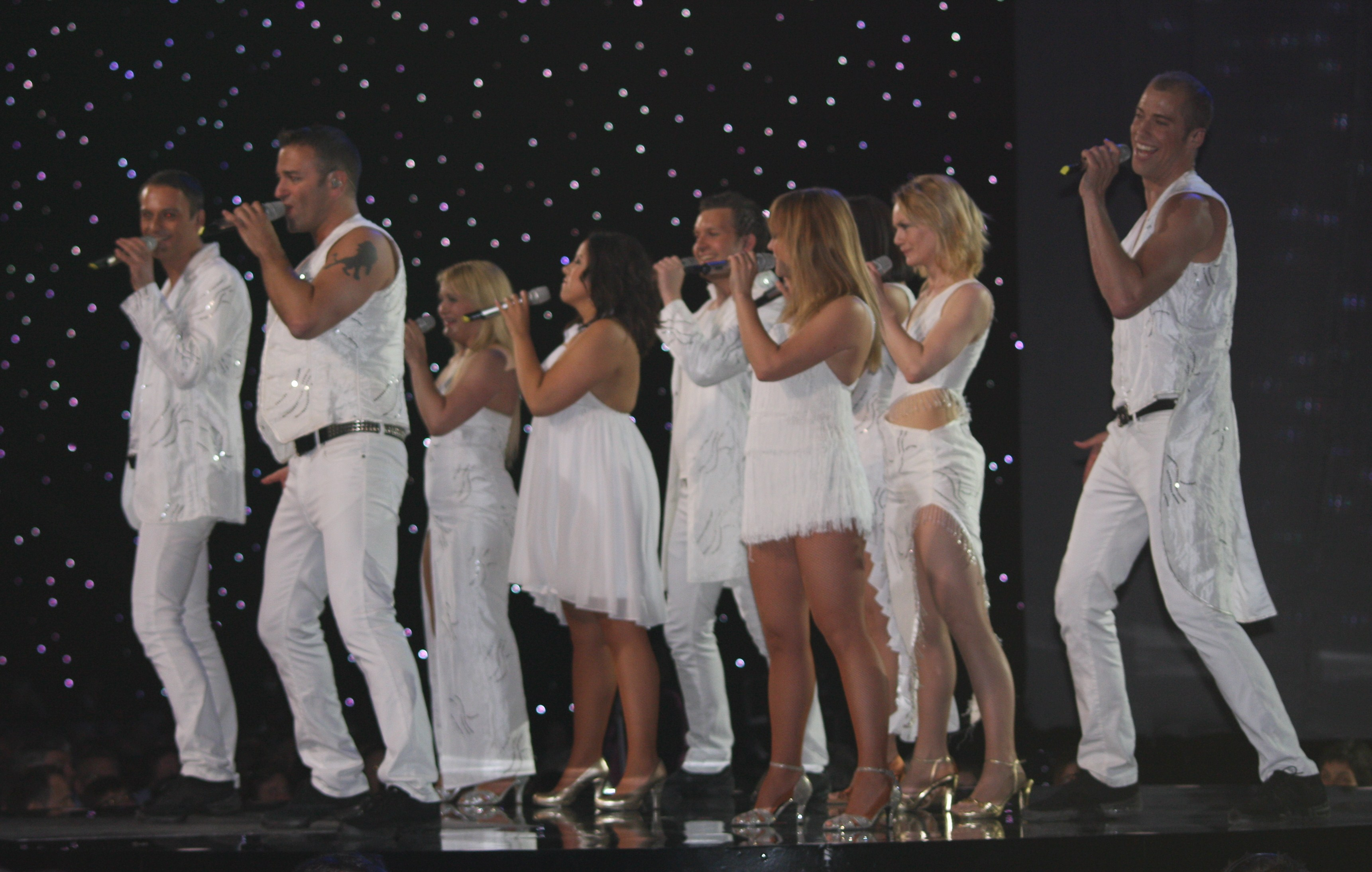 Wallmans Salonger warming up for the rehersal for Eurovision Song Contest 2010, in Oslo Norway (Telenor Arena).